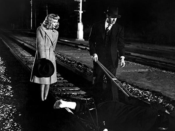 Promotional still from the 1944 film Double Indemnity